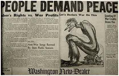 Soviet Agitprop, USA. The Washington Commonwealth Federation newspaper after the signing of the Molotov-Ribbentrop pact (The Washington Commonwealth Federation was an alleged Communist front organisation)